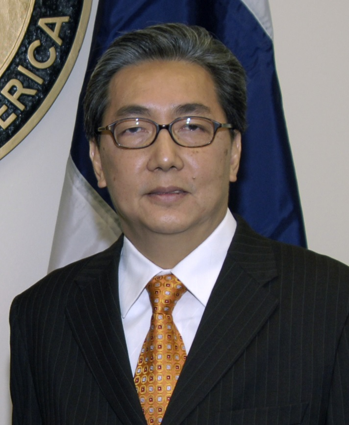 [Assignment: OS_2006_1201_209] Office of the Secretary (Carlos Gutierrez) - Thai Deputy Prime Minister of Commerce Somkid Jatursrintak [40_CFD_OS_2006_1201_209__DSC9113.JPG], 07/10/2006